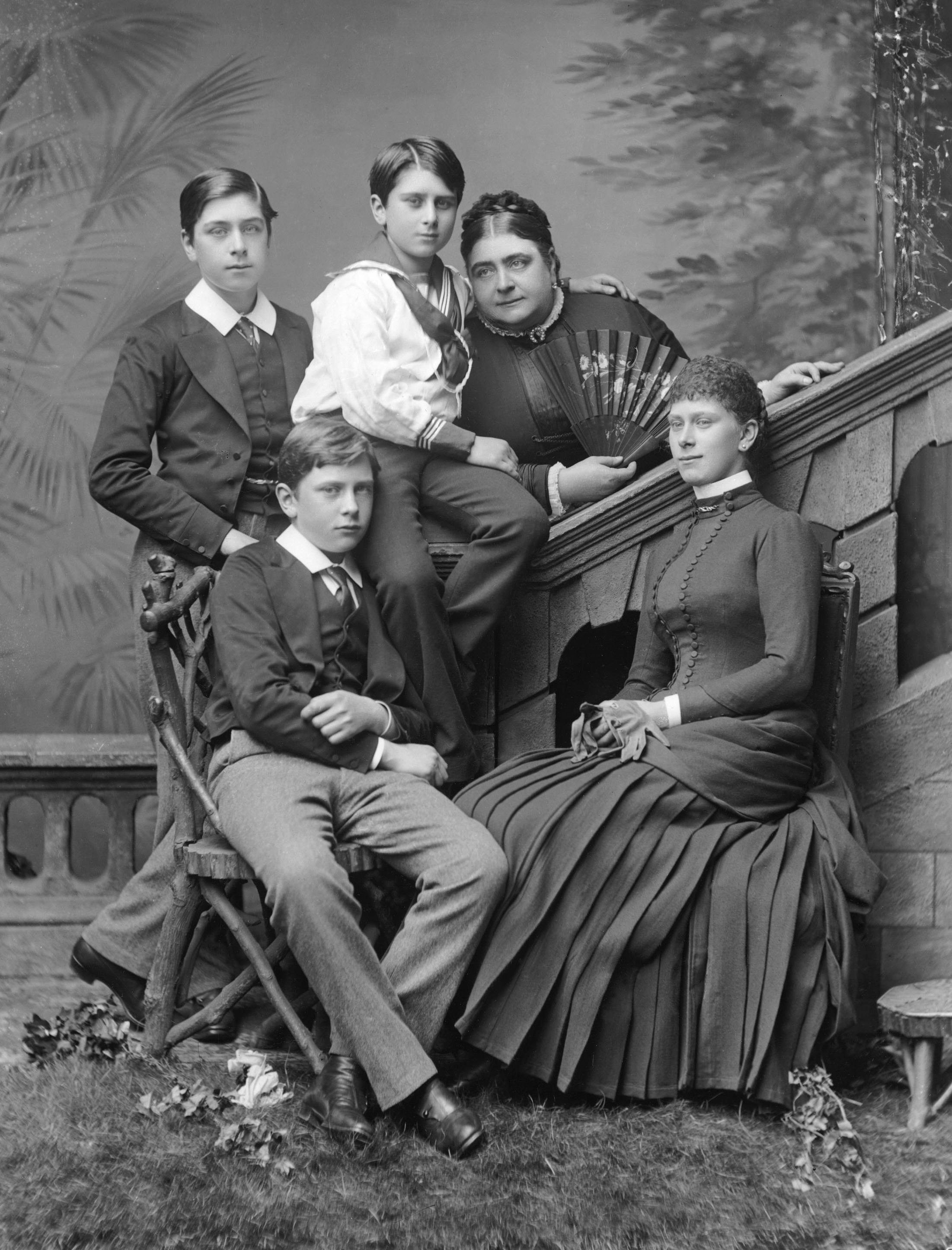 Queen Mary with her mother and brothers